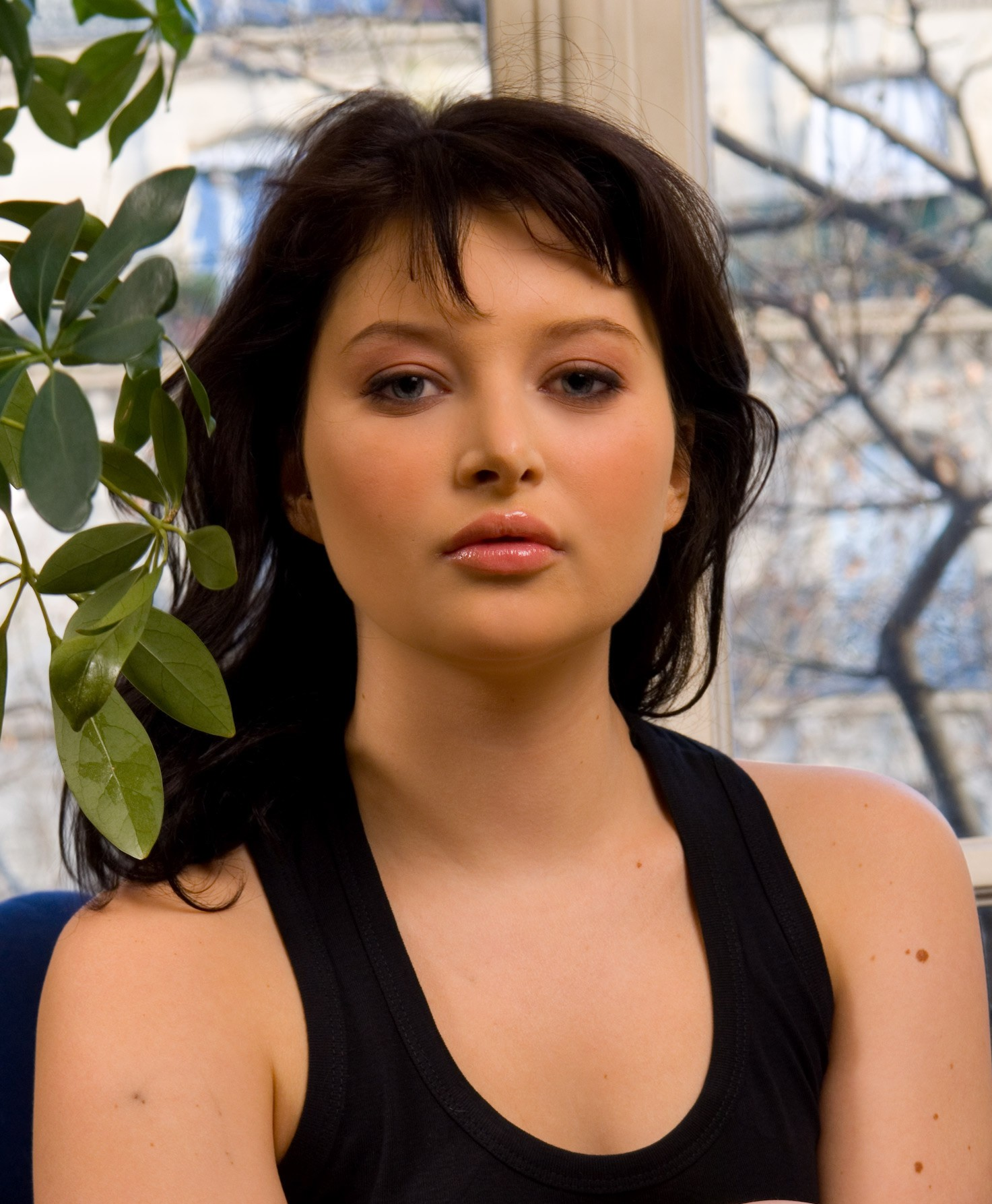 Anna Polina